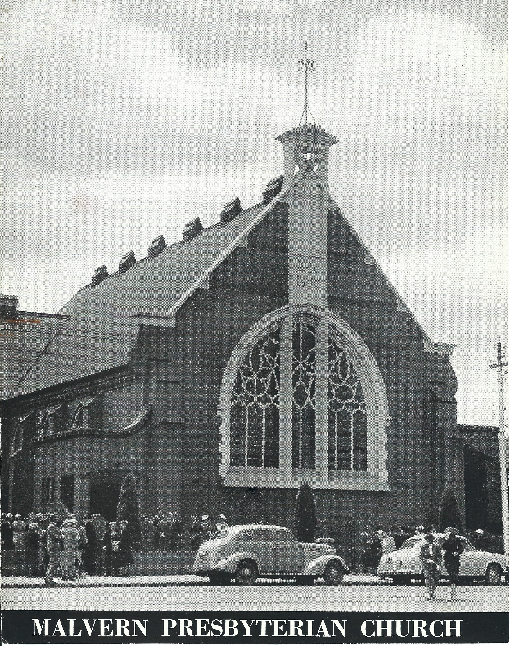 1955 Commemorative Booklet - Malvern Presbyterian Church, Melbourne, Victoria